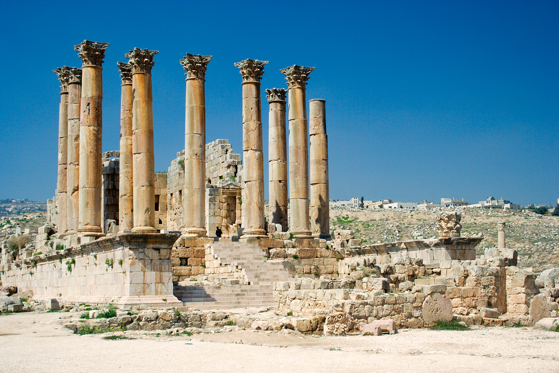 The Roman Temple of Artemis in Jerash, Jordan, was built around the middle of the 2nd century A.D. during the reign of Antonine the Pius.